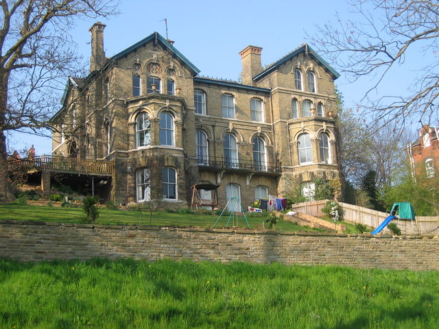 Rear of House on Lindum Terrace, Lincoln From the Arboretum's upper terrace